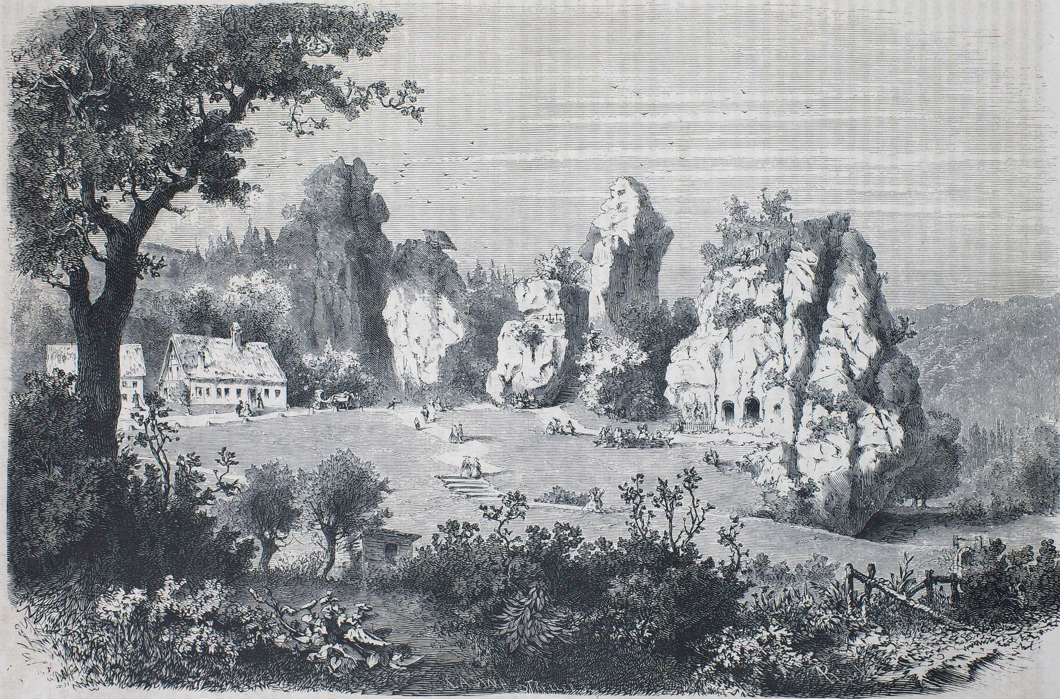 caption: "Die Externsteine bei Horn im Teutoburger Walde."